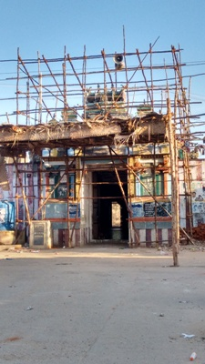 Darasuram avudayanathasamy temple தாராசுரம் ஆவுடையநாதசுவாமி கோயில்